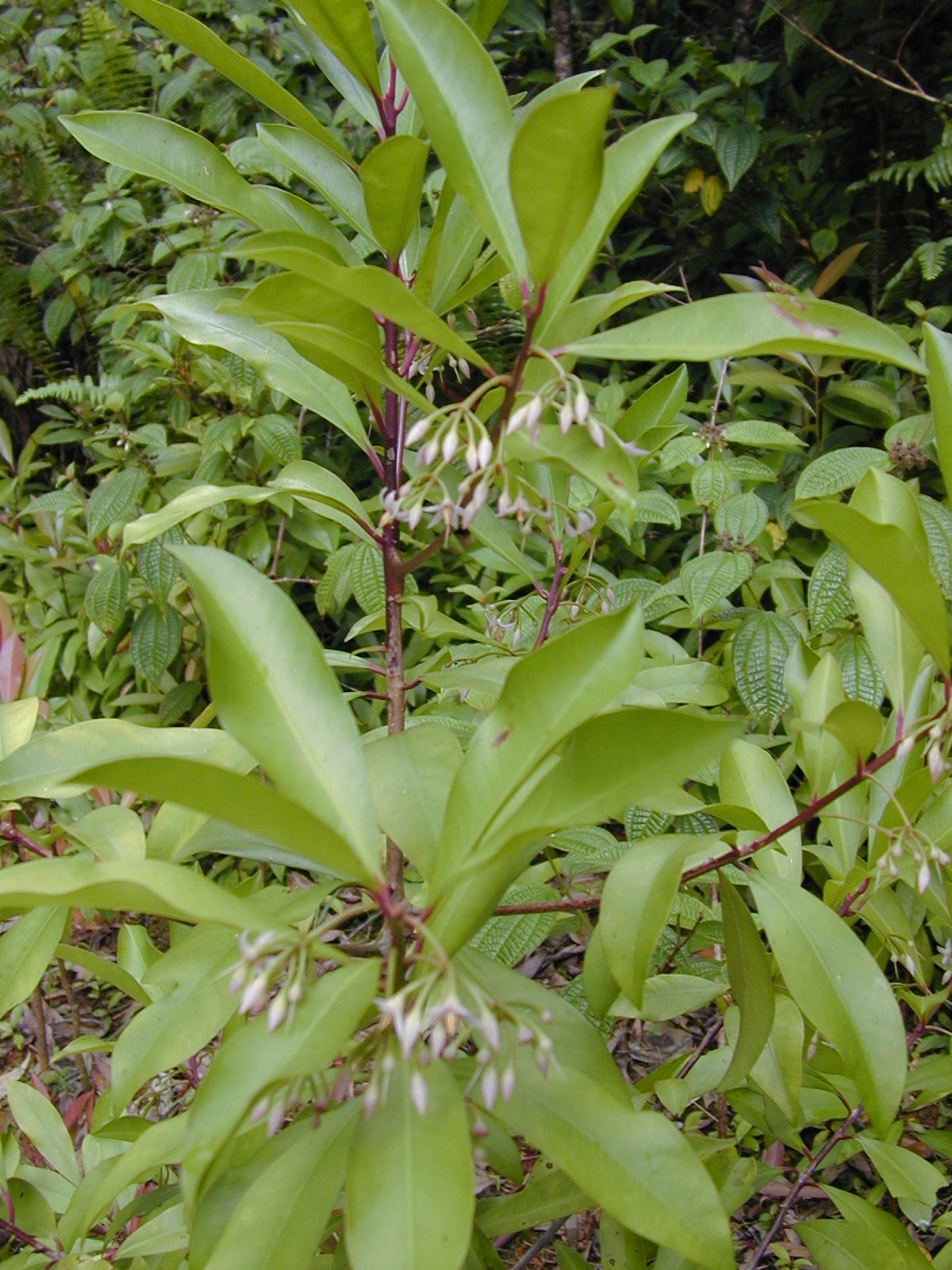 Ardisia elliptica (leaves and flowers). Location: Maui, Wahinepee